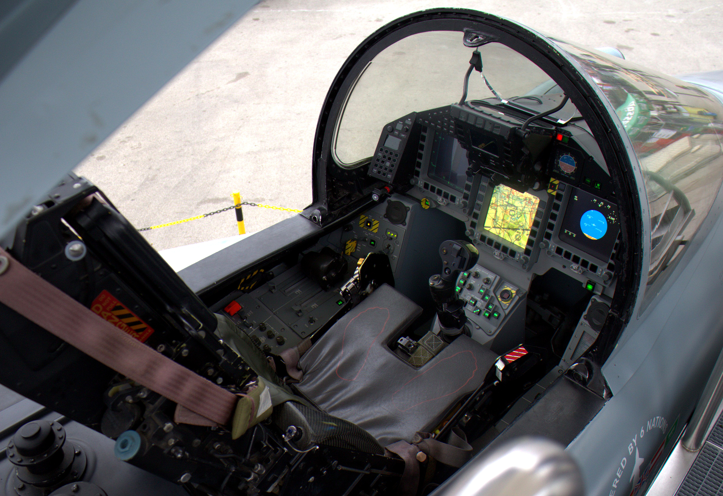 Eurofighter Typhoon cockpit